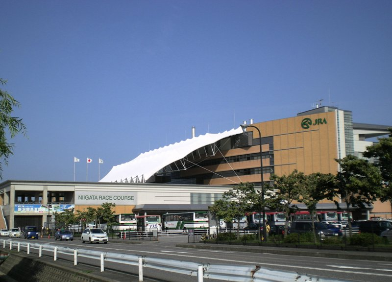 Niigata Racecourse